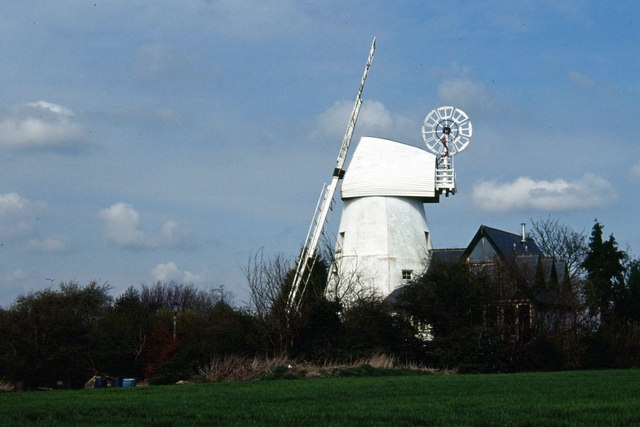 The house converted Gibraltar Mill, Great Bardfield